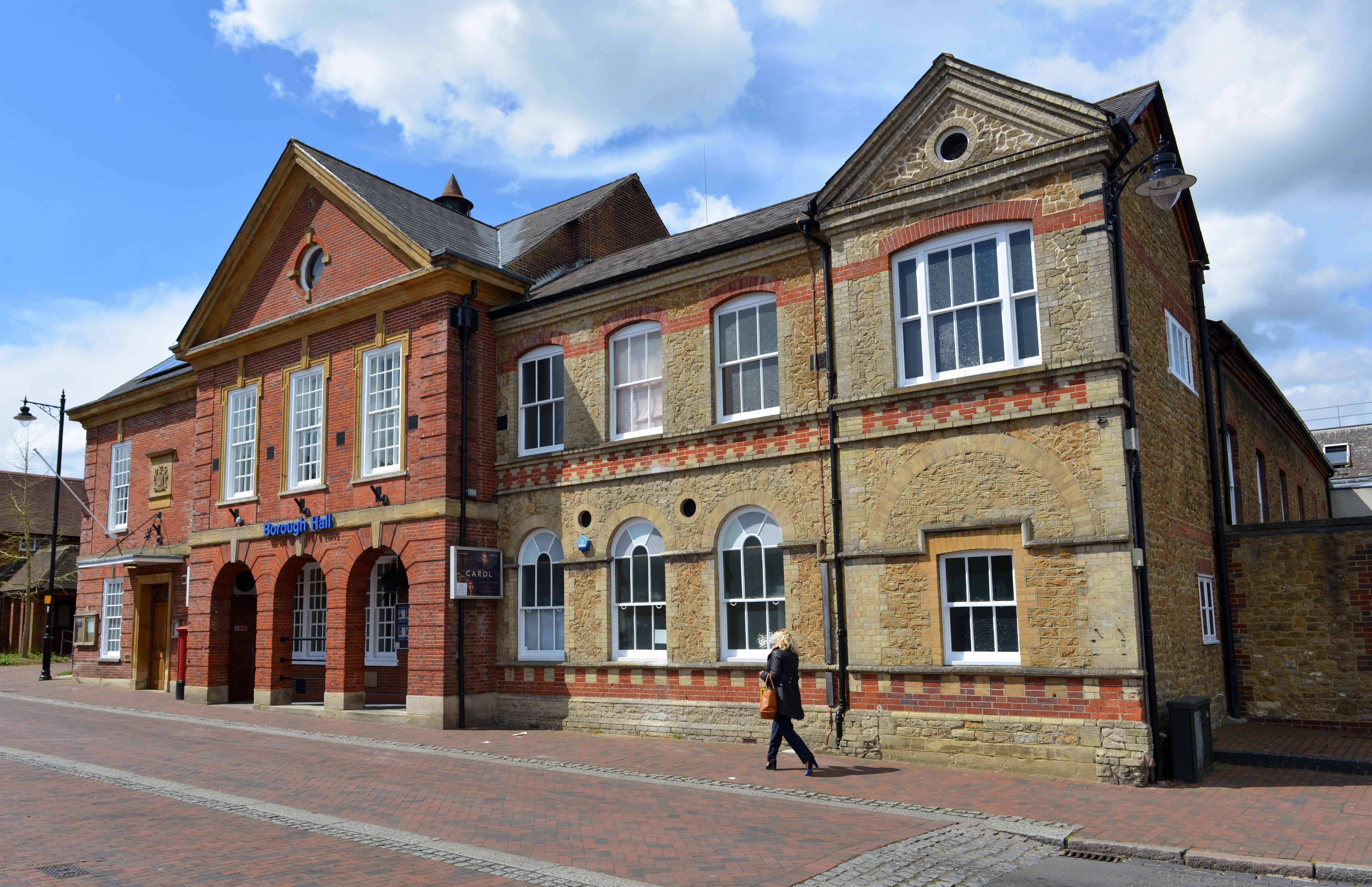 The southeast façade of the Borough Hall in 2016